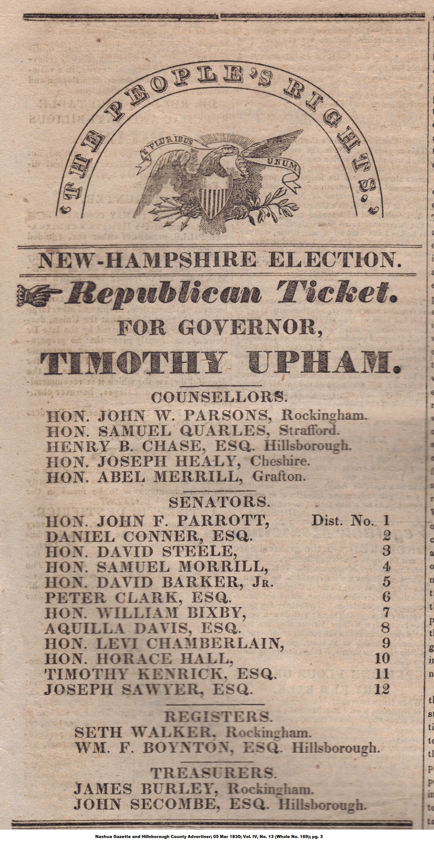 Advertisement for Timothy Upham's unsuccessful campaign for Governor of New Hampshire in 1830. Nashua Gazette and Hillsborough County Advertiser; March 05, 1830; Vol. IV, No. 13 (Whole No. 169); pg. 3. This is an historically significant image. I scanned it from an original copy in my possession.